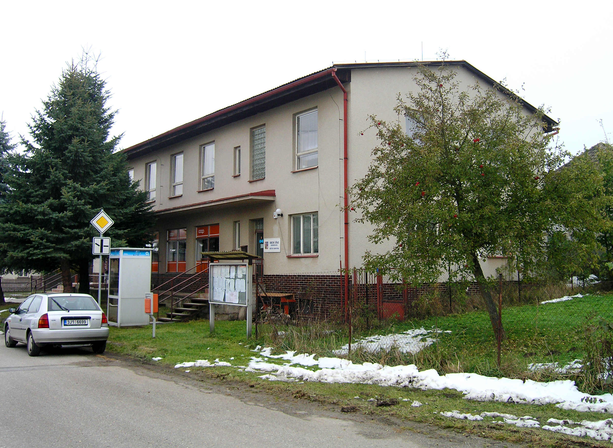 Municipal office in Komorovice village, Czech Republic